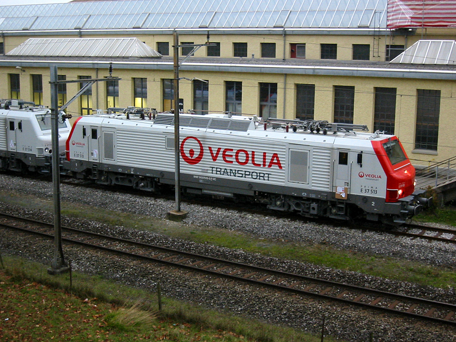 Alstom electro locomotives 37 513 and 37 514 of Veolia Transportation at the SBB railway depot Biel, Switzerland